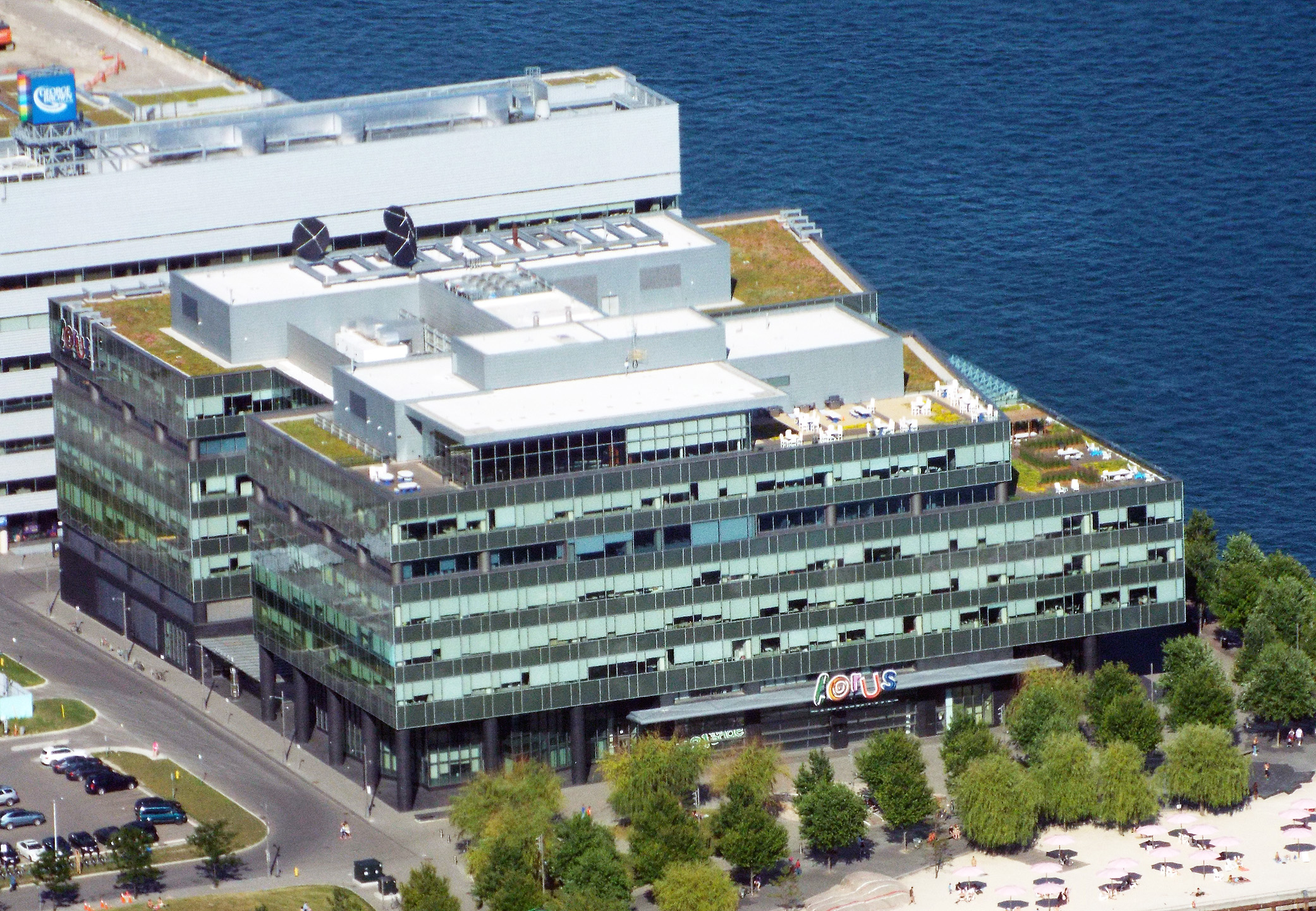 The headquarters of Corus Entertainment in Toronto, Ontario as seen from the CN Tower. Photographed by user Coolcaesar on July 5, 2014.